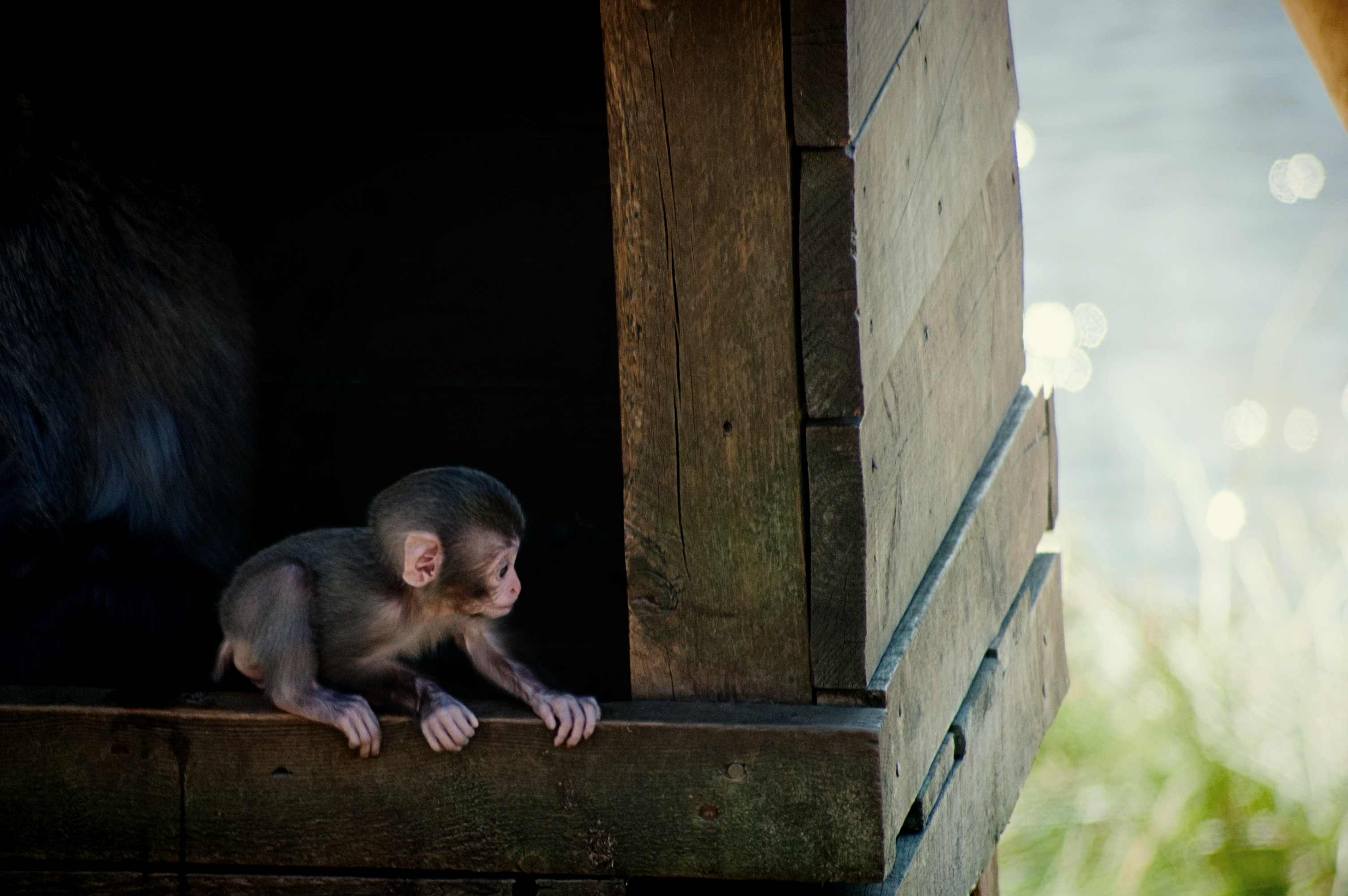 A young Japanese macaque (Macaca fuscata or snow monkey) at the colony at the Highland Wildlife Park, Kingussie, Scotland.